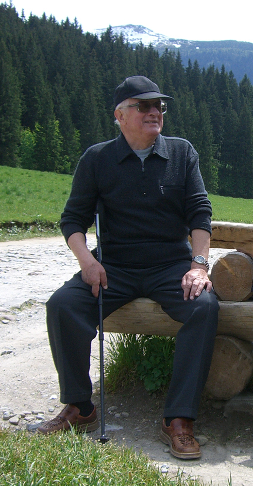 Czesław Budzyński, Polish writer and poet in Tatry Mountains